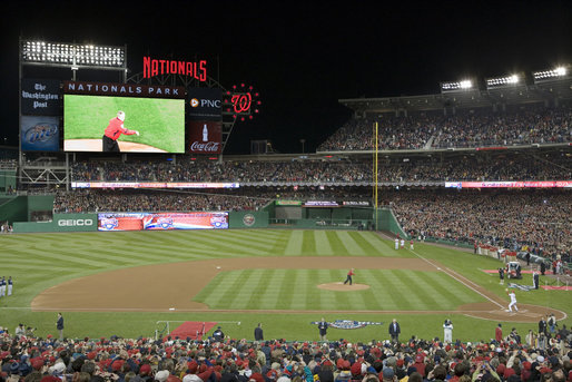 President George W. Bush throws the ceremonial first pitch before a sold out crowd at the Washington Nationals season opener, as they host the Atlanta Braves Sunday, March 30, 2008, at their new home field at Nationals Park in Washington, D.C.